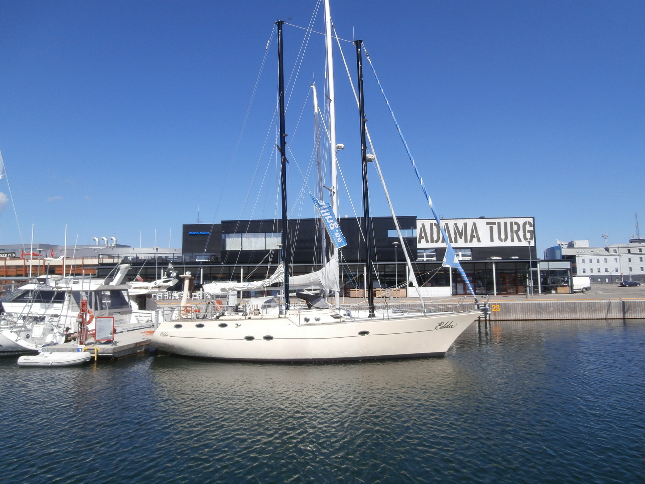 EST 19 Edda at pier at Old City Marina Tallinn 22 May 2015